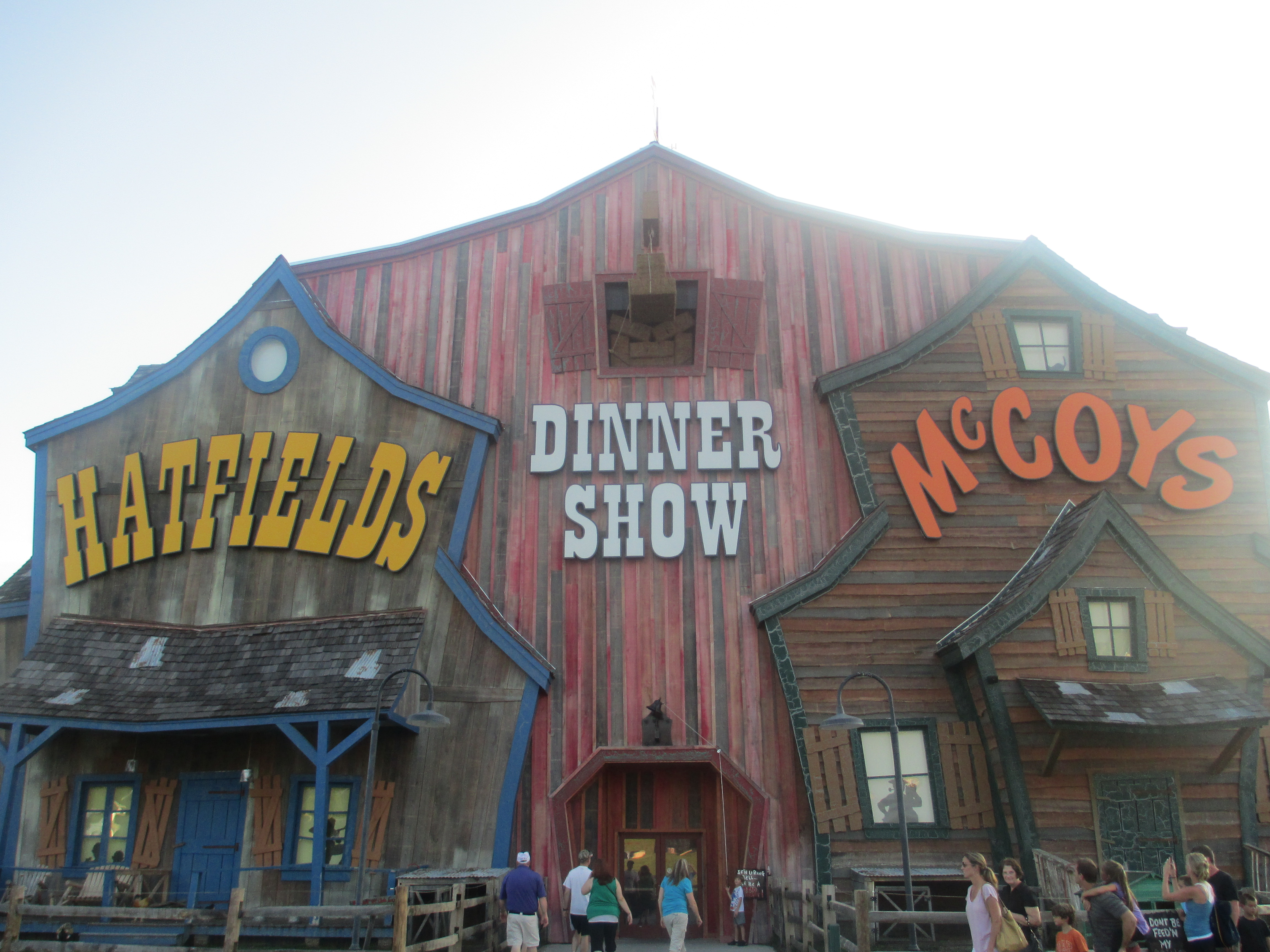 I took photo of Hatfield & Dinner Show building in Pigeon Forge, TN, with Canon camera.